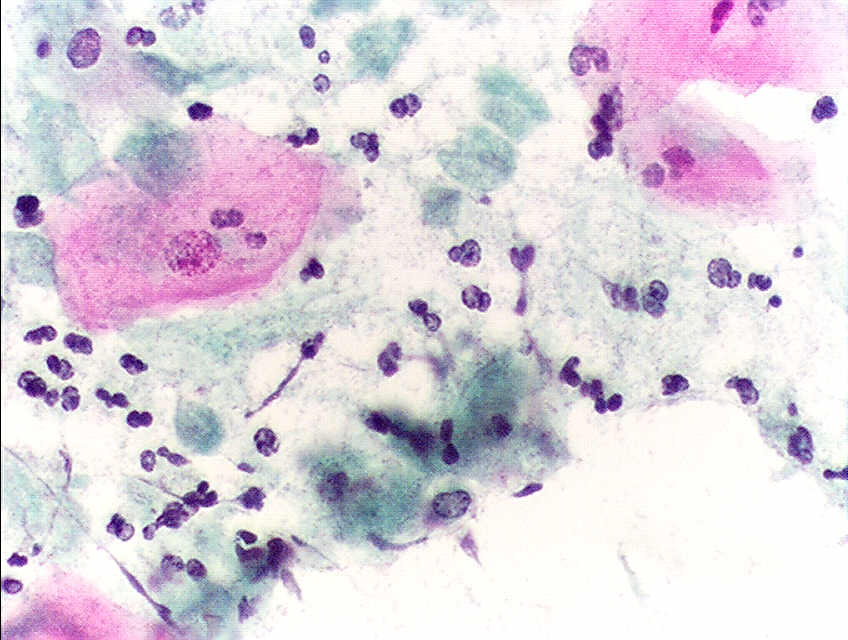 Pap test, Papanicolau stain, 400x. Infestation by Trichomonas vaginalis.